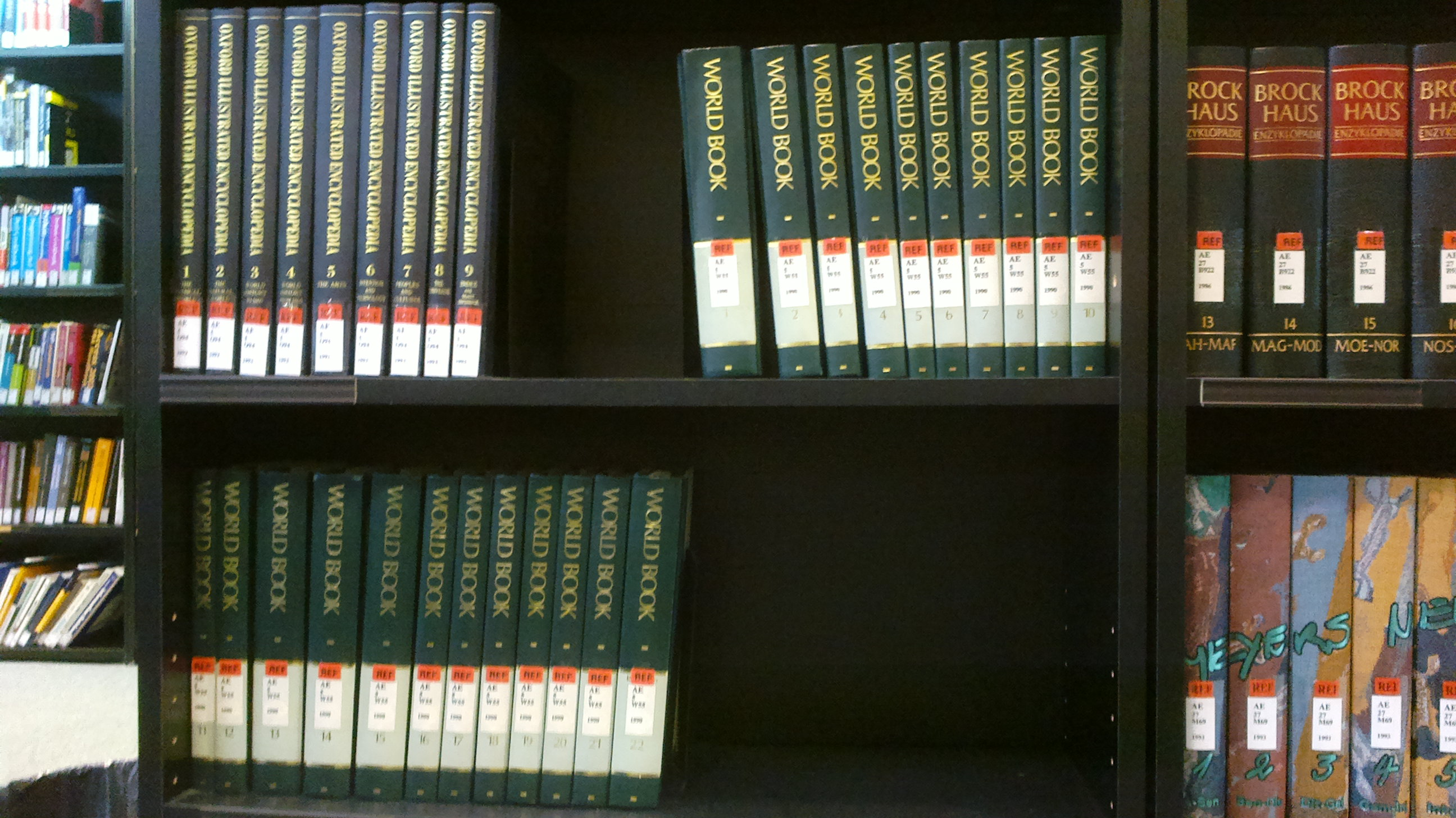 World Book Encyclopedia (1990). Photo taken in the library of Central European University.